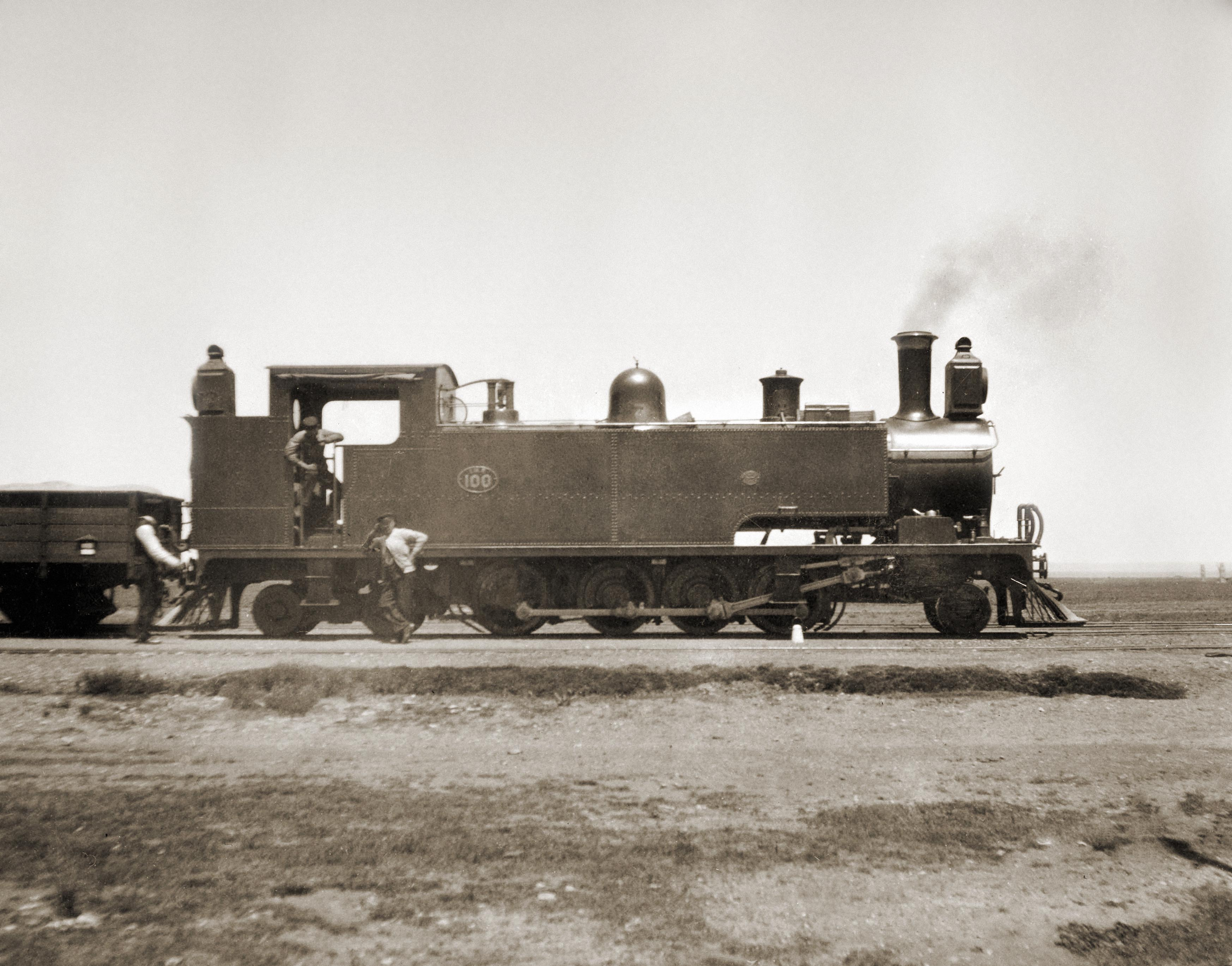 Imperial Military Railways 2-8-4T "Western Australian" no. 100Later Central South African Railways Class C no. 203